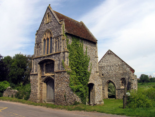 S Mary's Friary, Burnham Norton, Norfolk St Mary's Friary, Burnham Norton, Norfolk begun 1242-7 for a Carmelite Community. Closed by Henry VIII in 1538